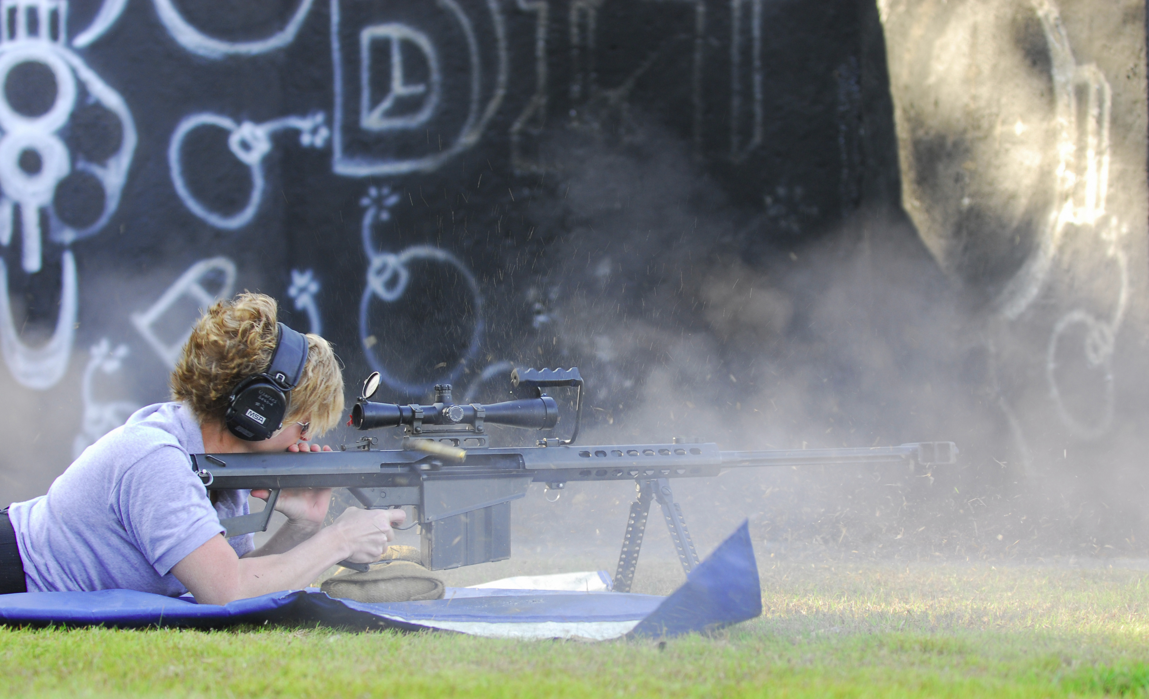 080109-F-0620E-115 Demonstration of a Barrett .50-caliber rifle at a target 300 meters downrange Jan. 9, 2008, during a weapons capabilities demonstration as part of the Dynamics of International Terrorism course at Hurlburt Field, Fla. The demonstration shows students the capabilities of weapons primarily used by terrorist groups. (U.S. Air Force photo by Airman 1st Class Jason Epley).